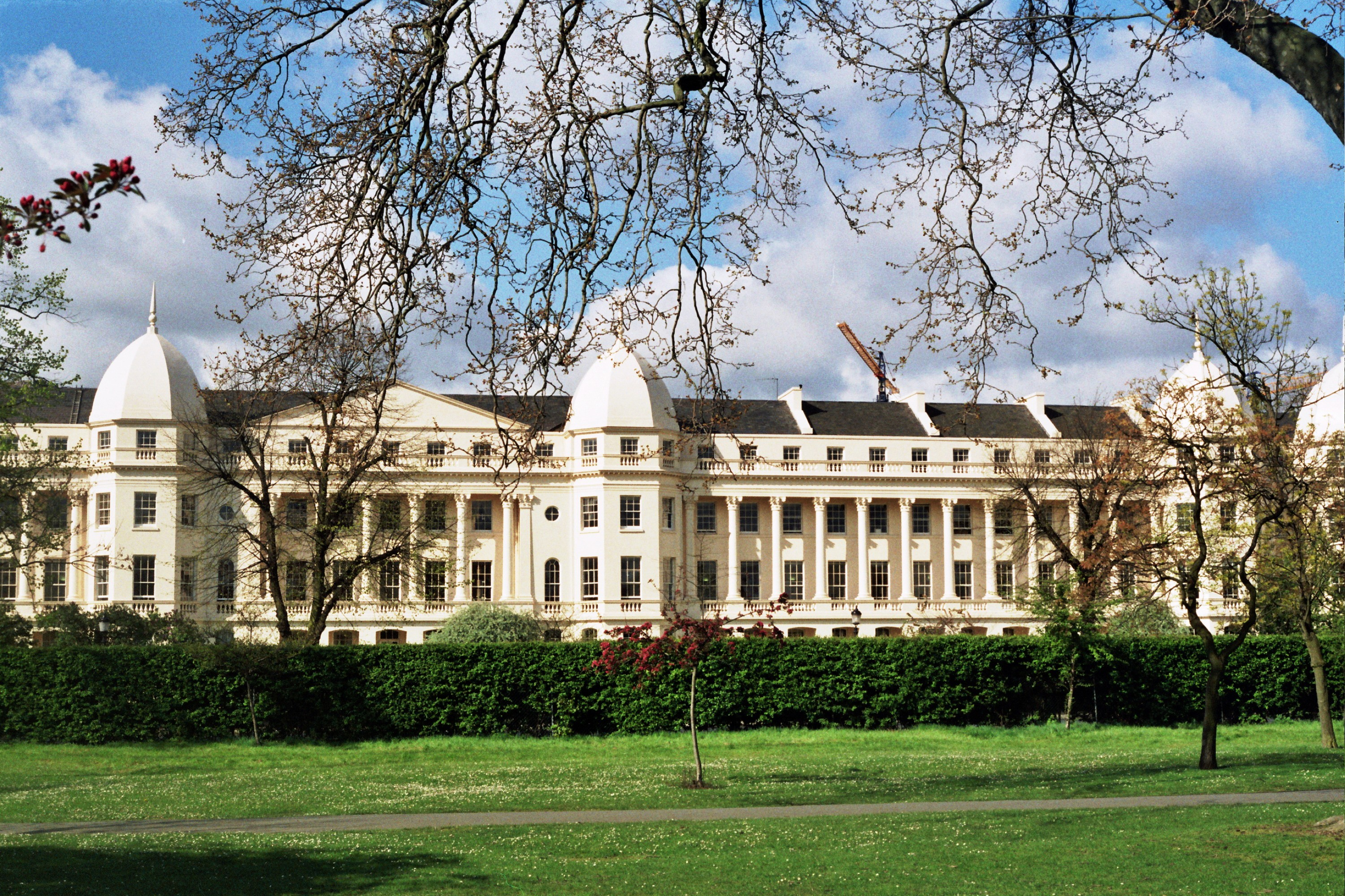 Sussex Place, originally 26 houses designed by Nash and built by William Smith in 1822-23, rebuilt in the 1960s behind the original façade to house the London Business School